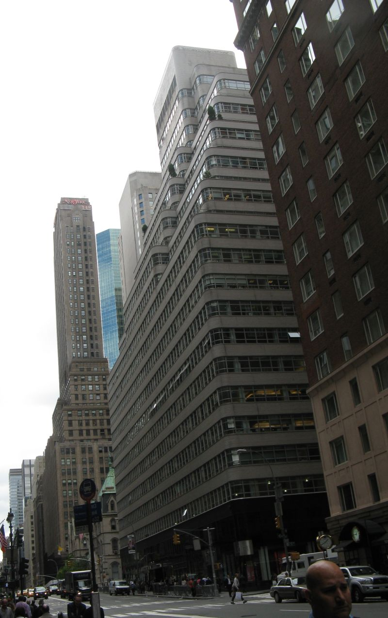 Looking southwest across Madison and 52nd at Look Building at 488 Madison Avenue in New York; Look Building. Thin brown skyscraper in background, 444 Madison Avenue, was once the home of Newsweek.